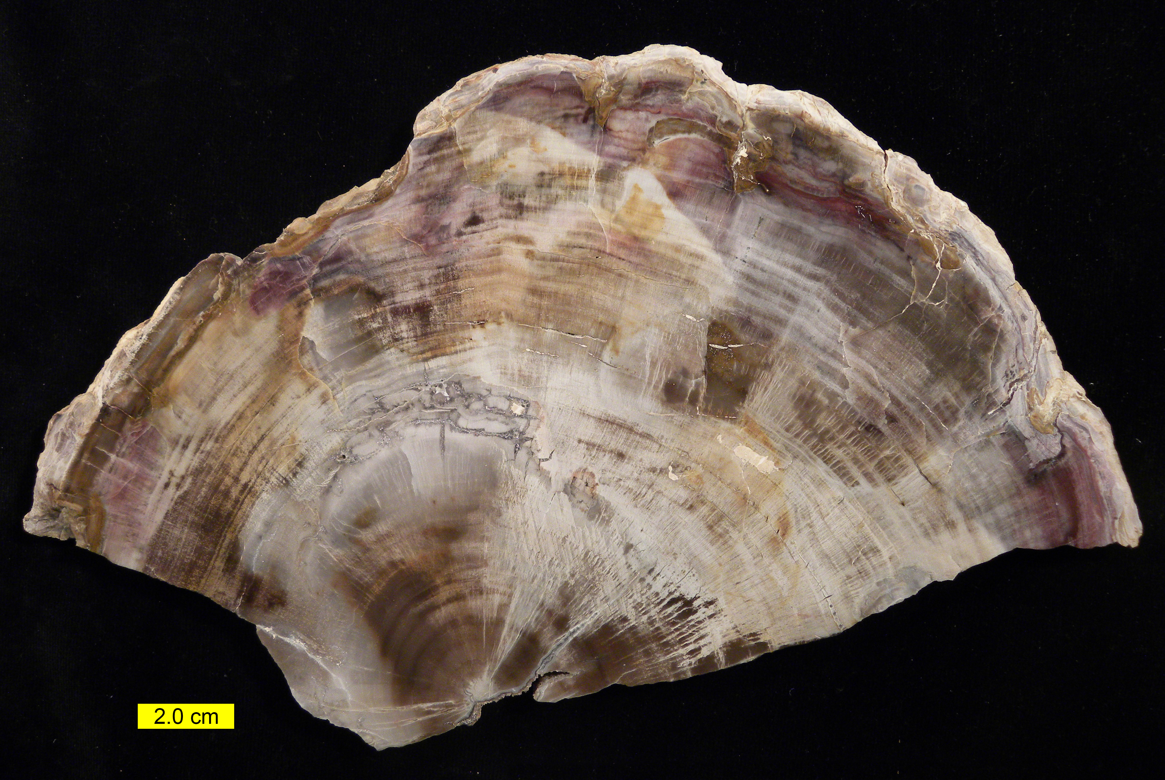 Polished petrified wood. Location unknown.